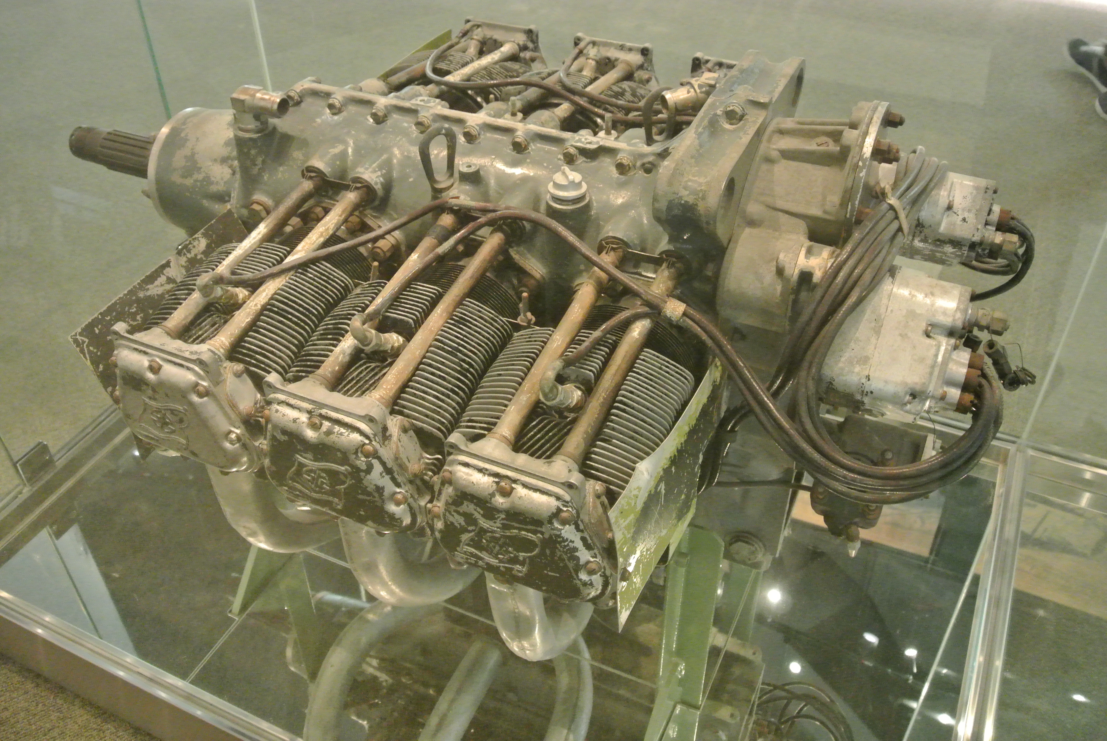 Kawasaki KAE-240 Aircraft engine at the Kawasaki Good Times World, Kobe.